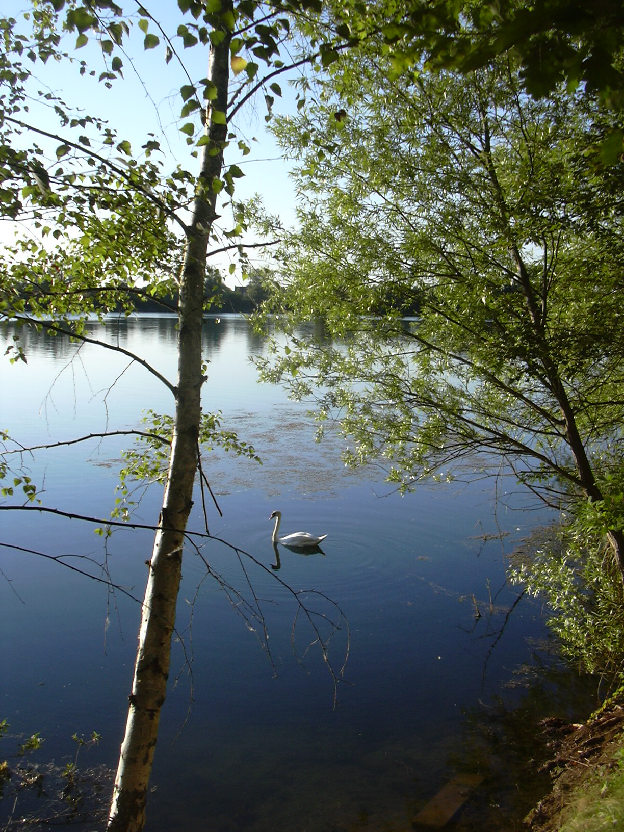 one of the Vorspessart Lakes, near Aschaffenburg, Bavaria/Germany